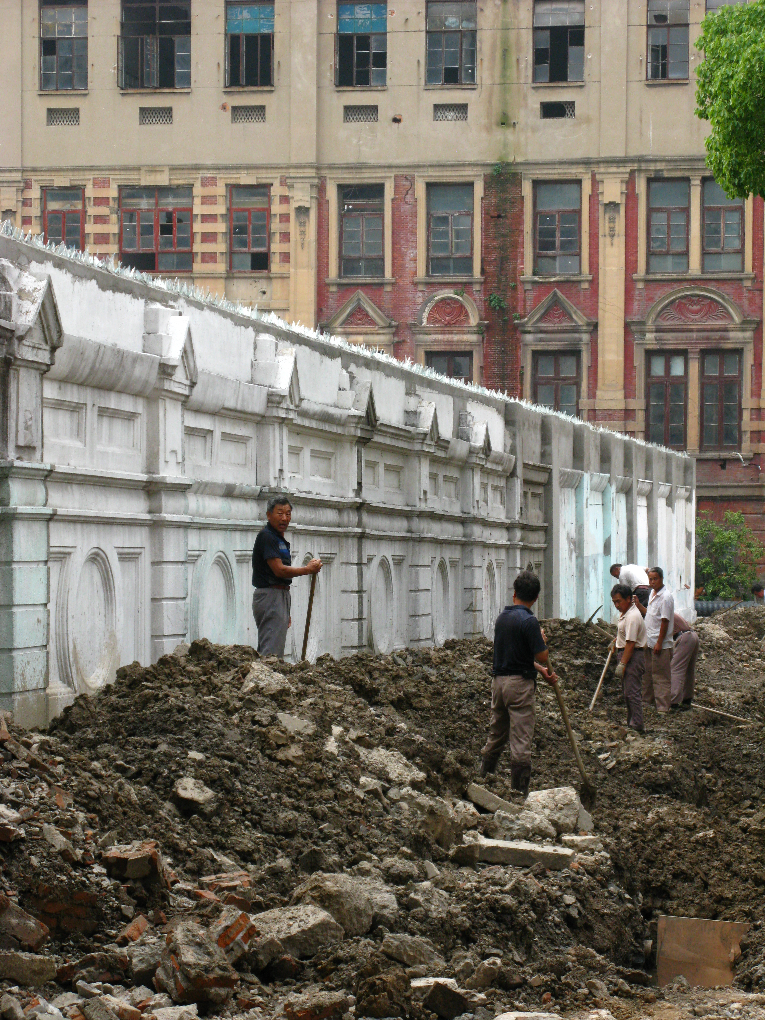 Old things disappear to make place for new. Memories last longer, but will vanish, too. I like the different colors of this pic.